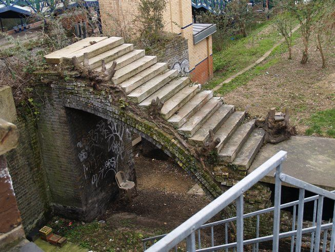 Vestige of bridge and steps over Counter's Creek, 1826